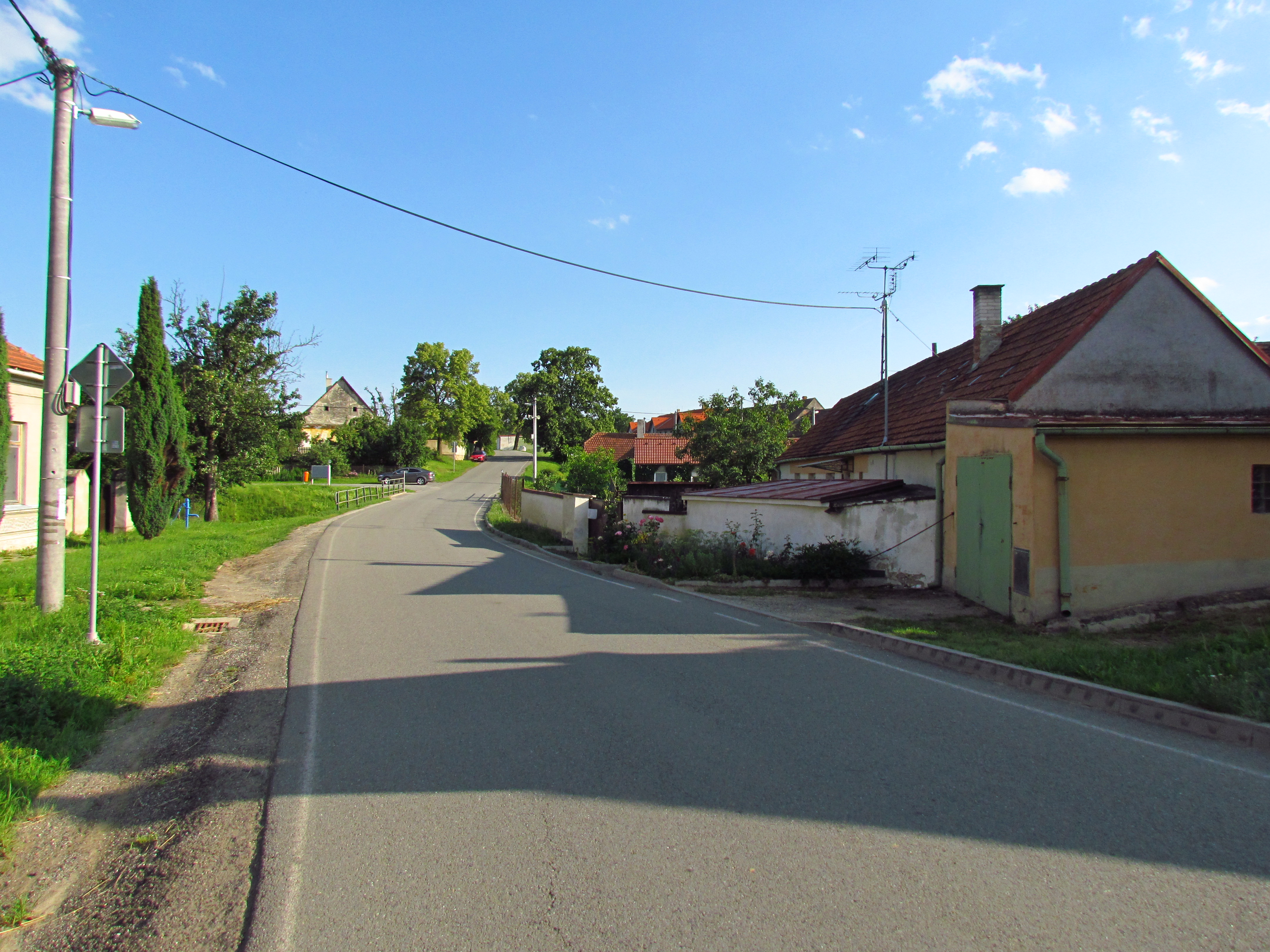 Center of Šemíkovice, Třebíč District.